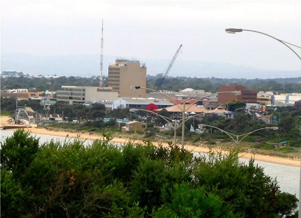 View of Frankston, Victoria from Olivers Hill Lookout.